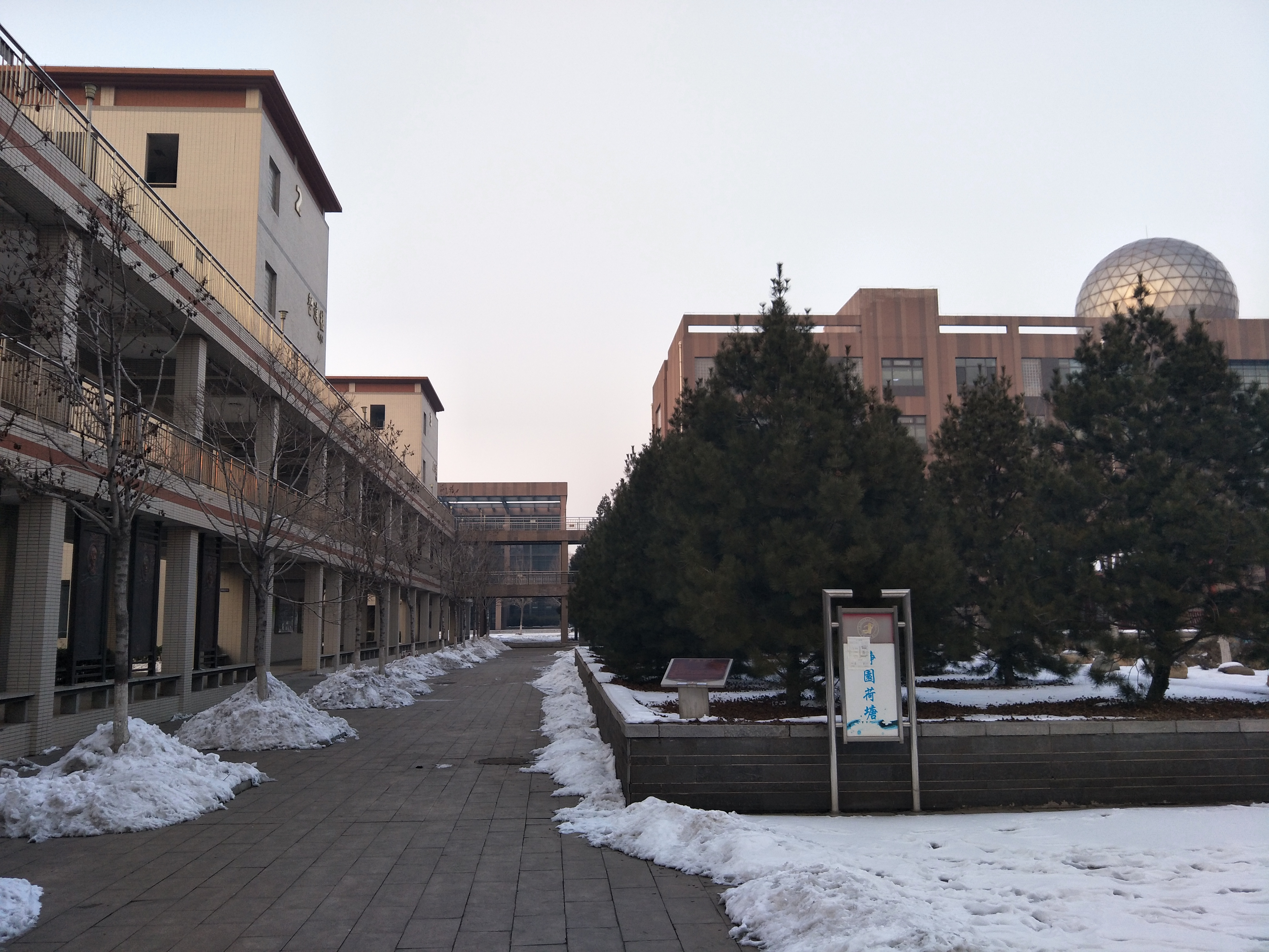 Tangshan No. 1 high school